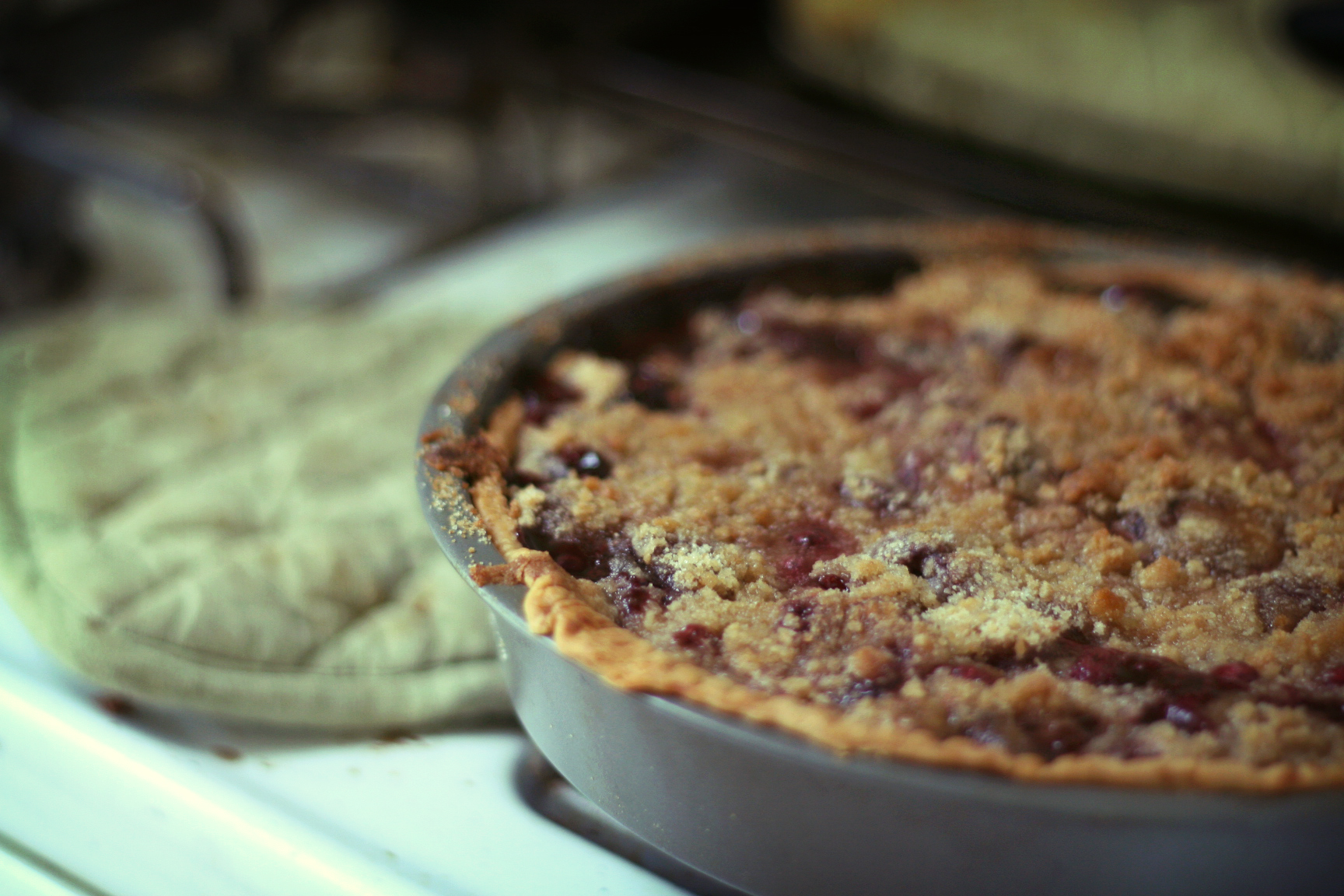 Cherry pie with crumble topping.